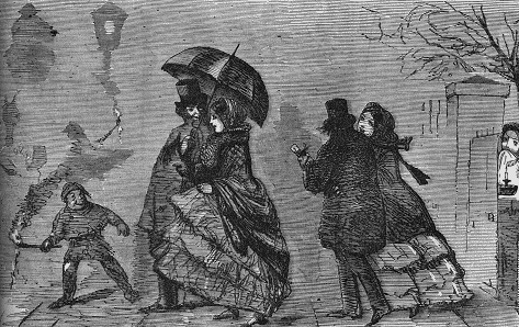 Longon fog, 1855